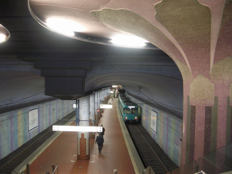 Frankfurt Subway, Westend station